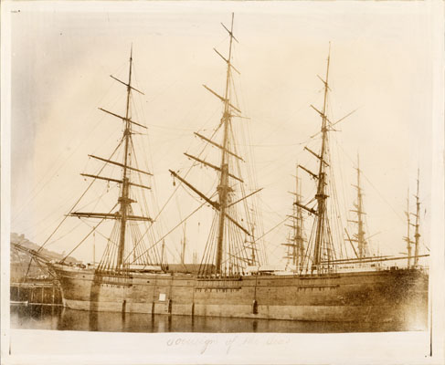 Written on back: "S.F. Ships. Sovereign of the Seas. Builder: Donald McKay, East Boston, 1852. Dimensions: 258.2 x 44.7 x 23.6. Tonnage: 2420 tons. Type: Wood Clipper Ship." Written on front: "Sovereign of the Seas." Ship was wrecked in 1859.